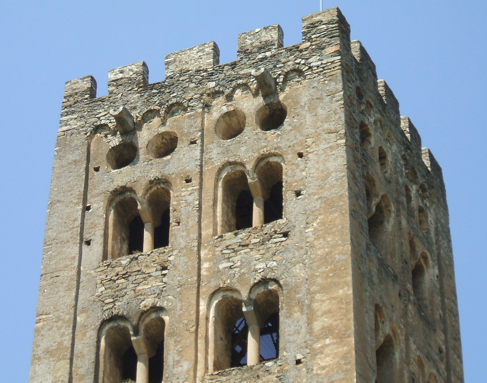 Codalet (Pyrénées-Orientales département, Languedoc-Roussillon région, France) : Abbey of Saint-Michel-de-Cuxa. Southern belltower, added in the XIth century to the Xth century church. Its northern counterpart collapsed in 1838.